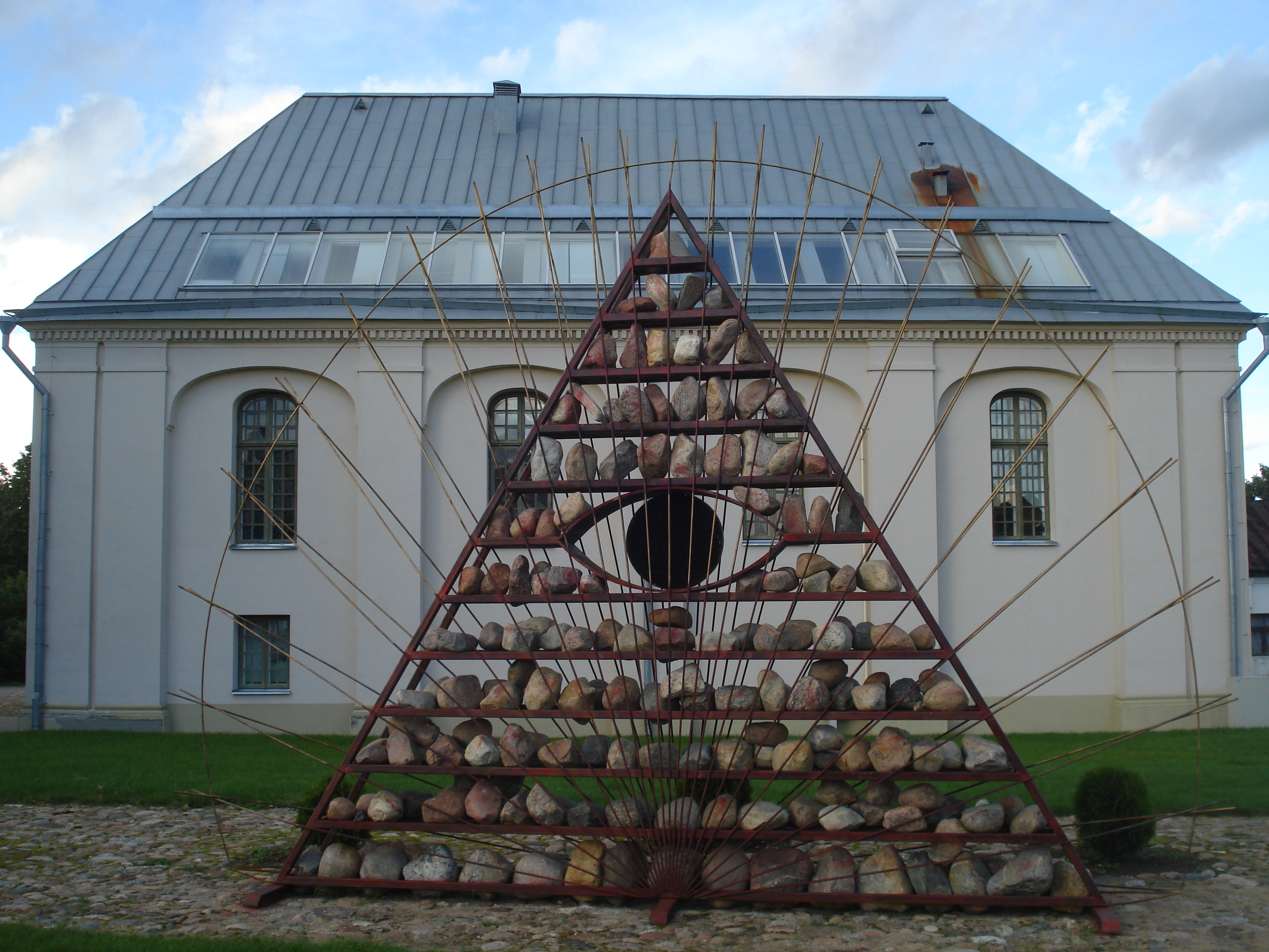 Old Synagogue in Kėdainiai (Lithuania)